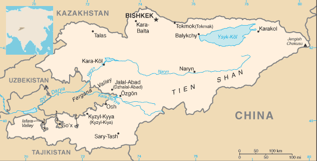 from cia wfb